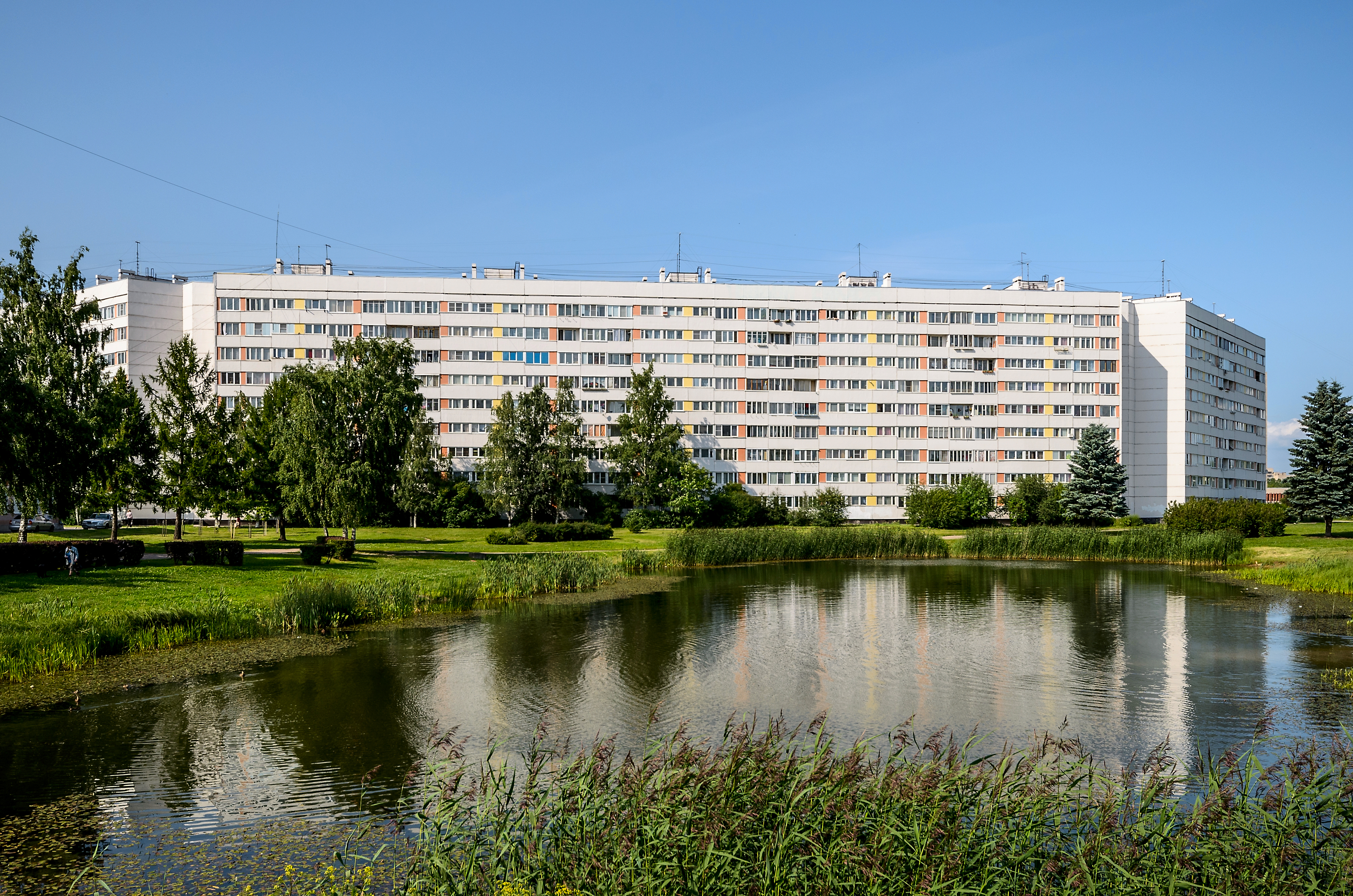 Veteranov Avenue in Saint Petersburg